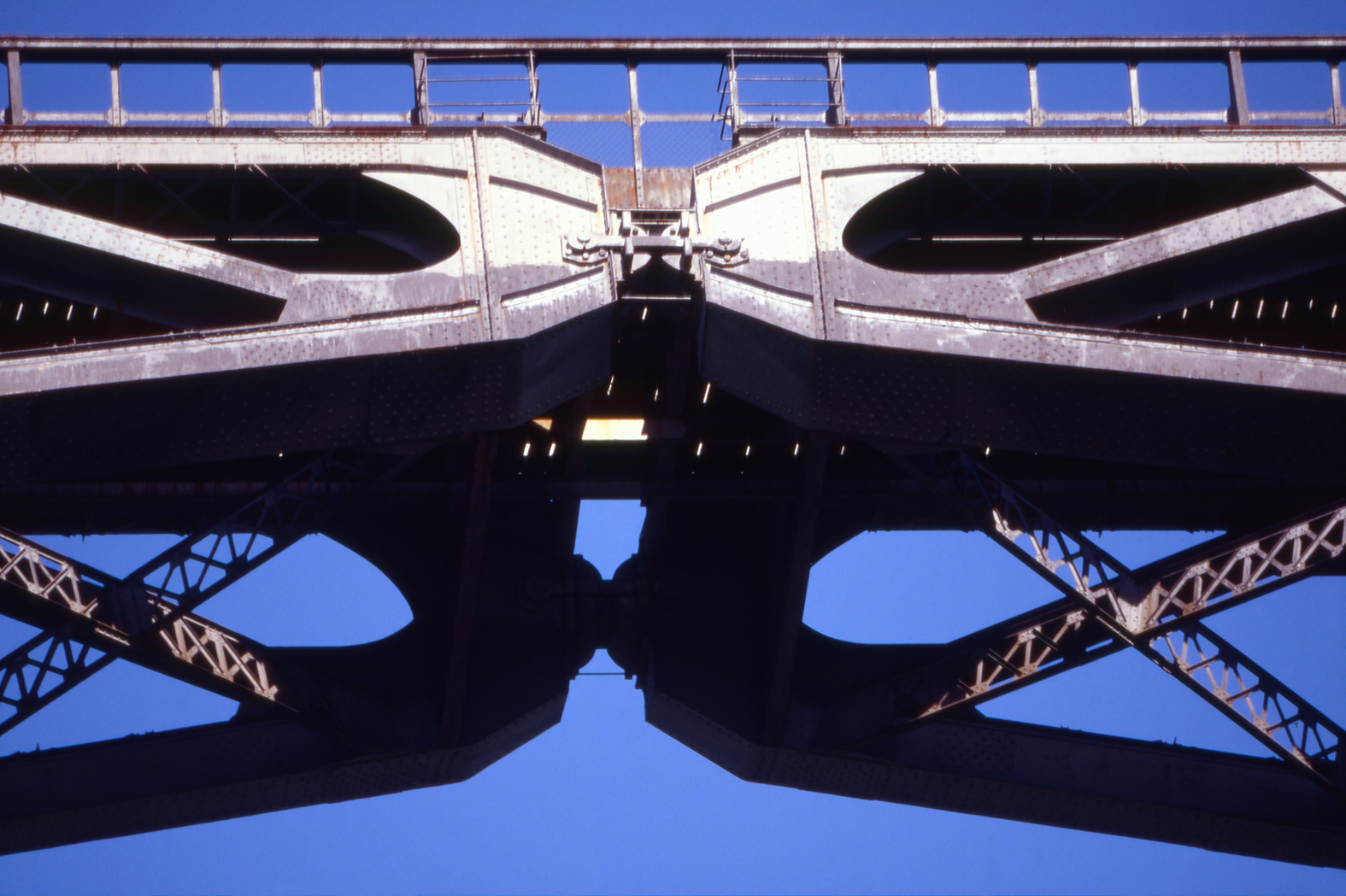 Viaur viaduct, view to the central hinge, department Aveyron, France